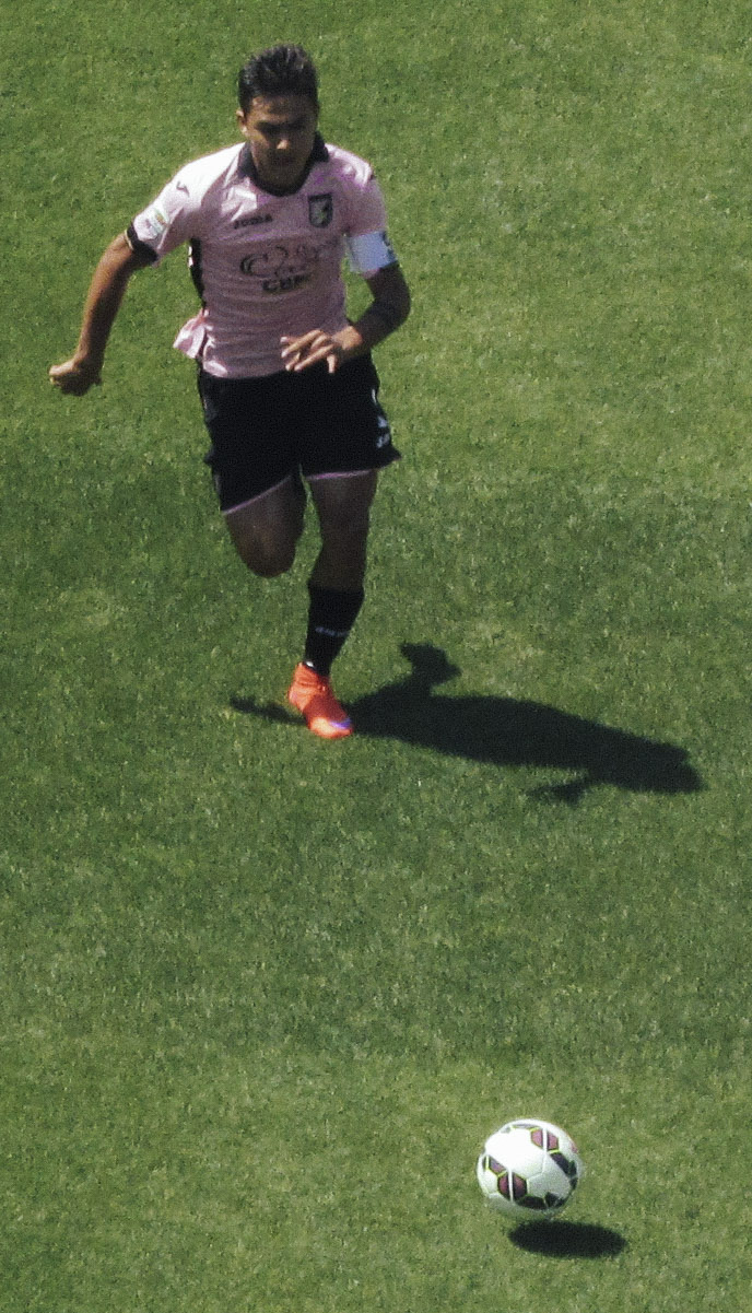 Paulo Dybala running with the ball for US Palermo in 2015